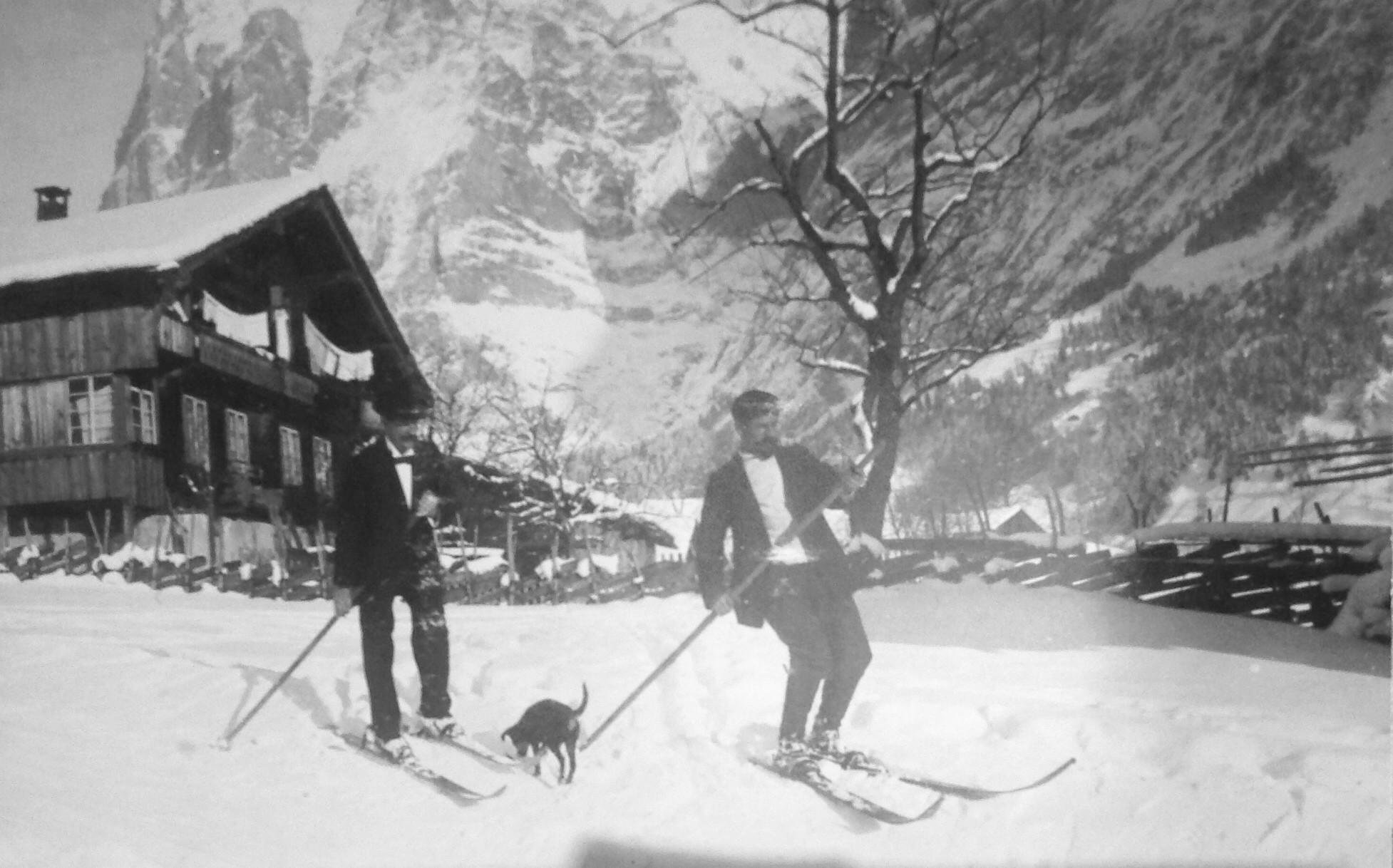 Gerald Fox on the downhill skis in 1891 Grindlewald, Switzerland